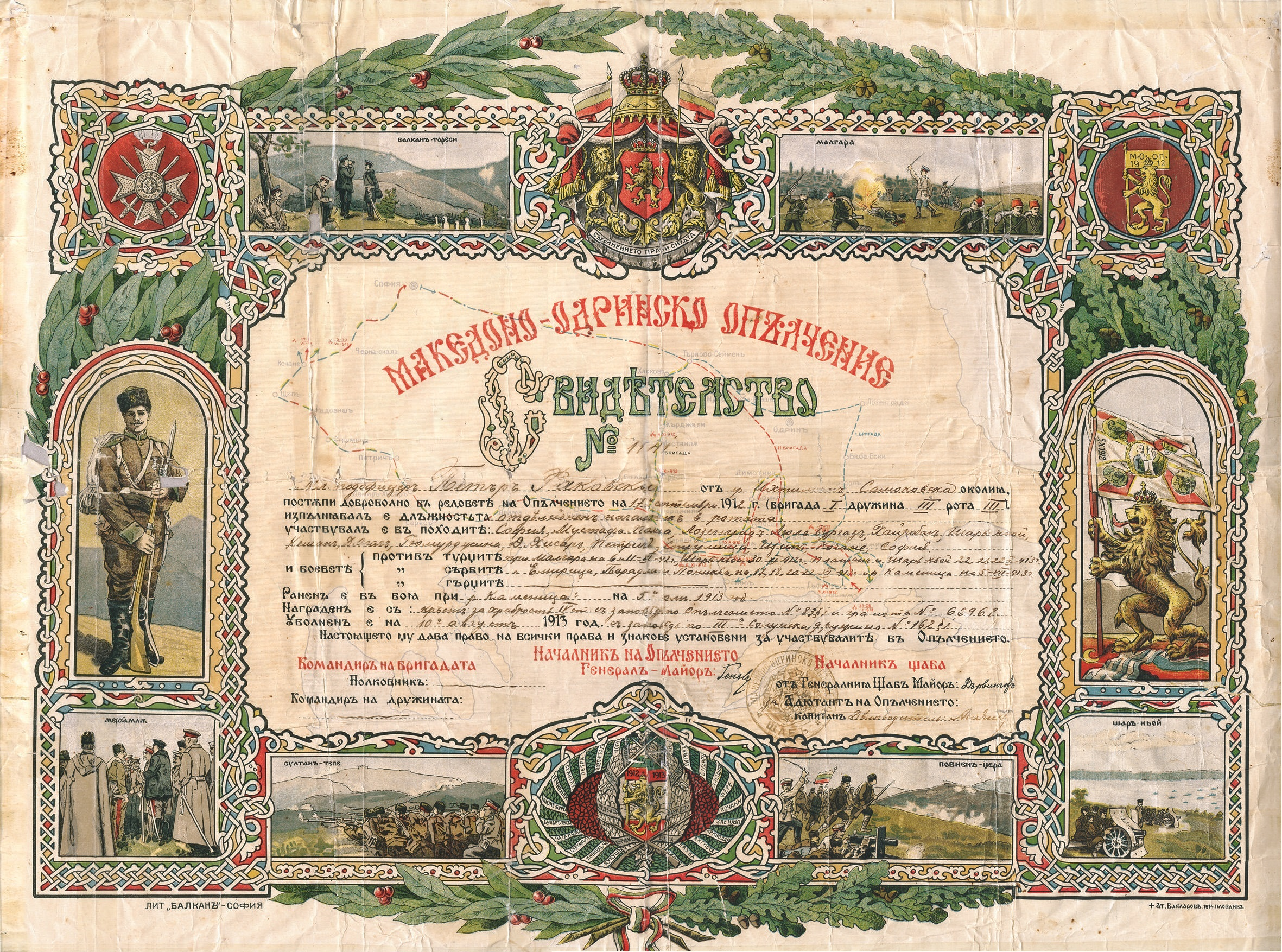 Certificate for service in the Macedonian-Adrianopolitan Volunteer Corps of Petar Rakovski from Ihtiman.